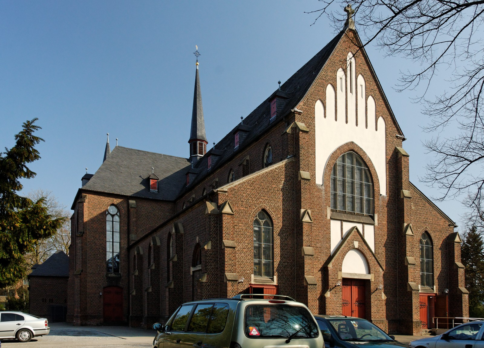 Saint Joseph in Düsseldorf-Holthausen, Germany